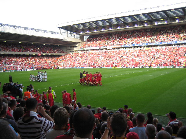 Anfield Stadium. Liverpool FC, Anfield